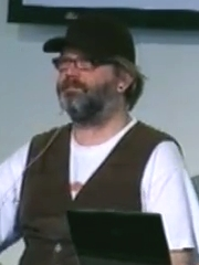 Speaker at 24C3 in Berlin